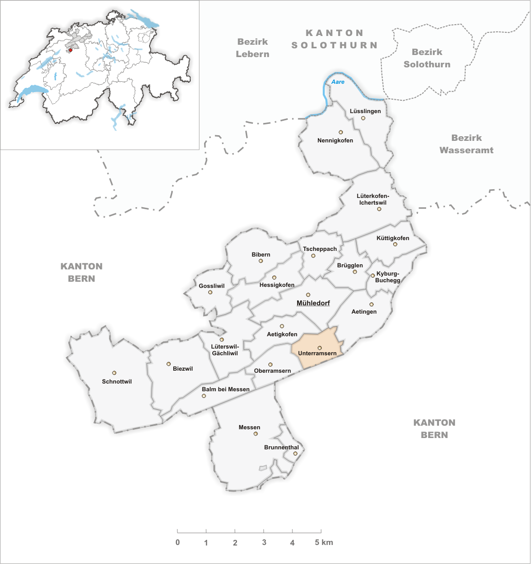 Municipality Unterramsern